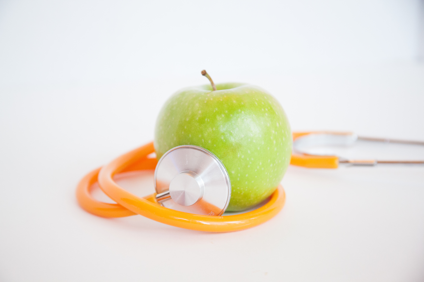 An apple and a sthetoscope.